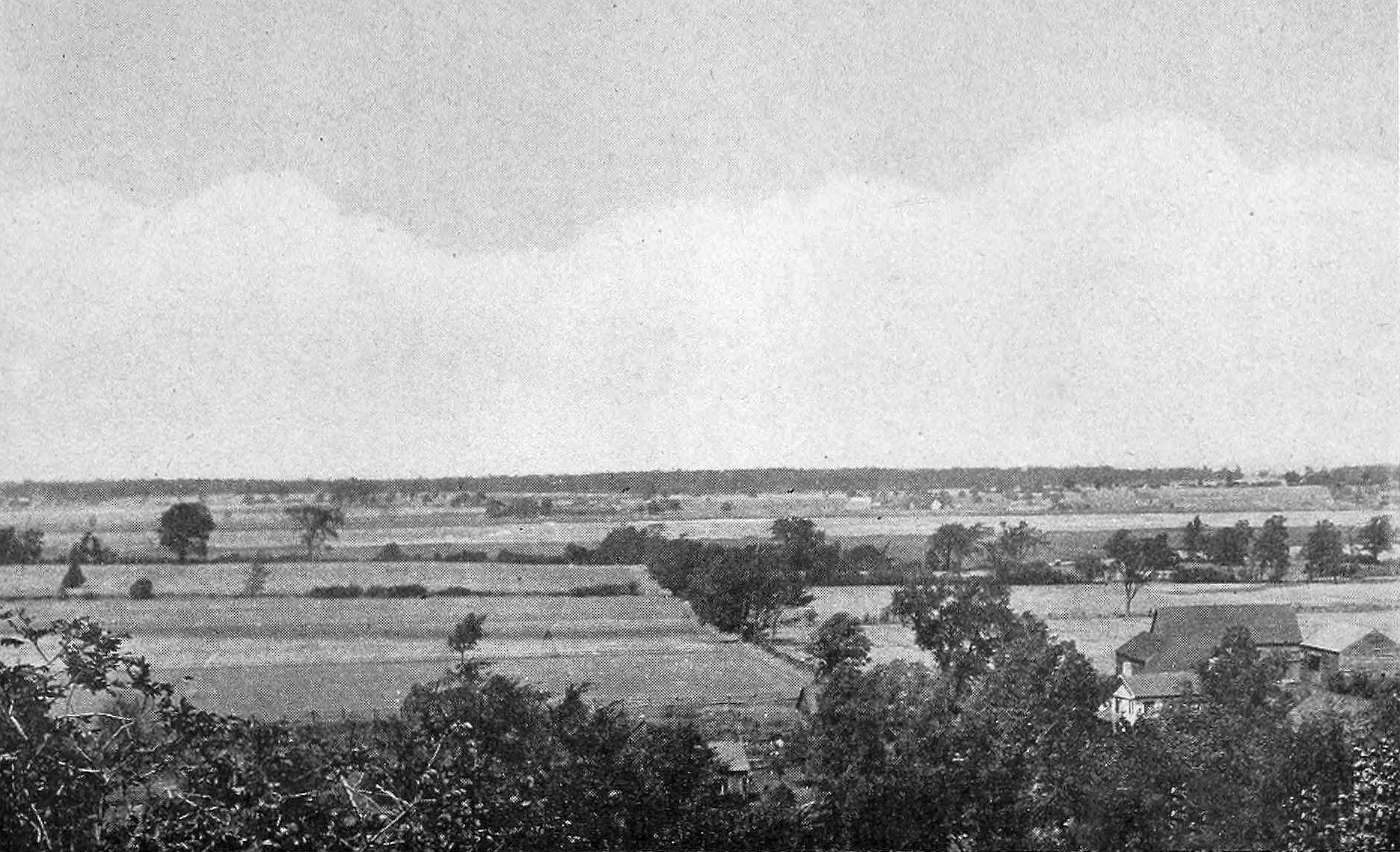 Demorestville, Ontario Identifier: ruralplanningdev00cana Title: Rural planning and development; a study of rural conditions and problems in Canada Year: 1917 (1910s) Authors: Canada. Commission of Conservation Adams, Thomas, 1871-1940 Subjects: City planning Public lands Publisher: Ottawa, [s.n.] Text Appearing Before Image: d theuse of a house and some farm products. At 5 per cent the use ofthe capital is v/orth $450, and unpaid farm work done by membersof the family was valued at $96, so that the pay for the farmerswork or his labour income was $609,besides the use of a house andsome farm products. He says this is considerably above the aver-age for the States, a statement which is confirmed by Professor W.J. Spillman, of the United States Department of Agriculture. Inan article* on the farmers income the latter gives $640 as the aver-age income obtained in the United States after deducting total ex-penses from the total receipts. He estimates that at 5 per cent asthe rate of interest this should be distributed between interest andlabour income, as follows: Interest on investm.ent _ $322 Labour income 318 Another United States authority shows that the average incomeof 2,090 farmers operating their own farms in eight States was $439. * The Farmers Income, in Selected Readings in Rural Economics. Plate IV Text Appearing After Image: Photo by courtesy of Immigration Branch, Dept, of Interior DEMORESTVILLE, ONTARIO A large part of Ontario has all the appearance and features of a highly cultivated English country-side. (Page 29.)